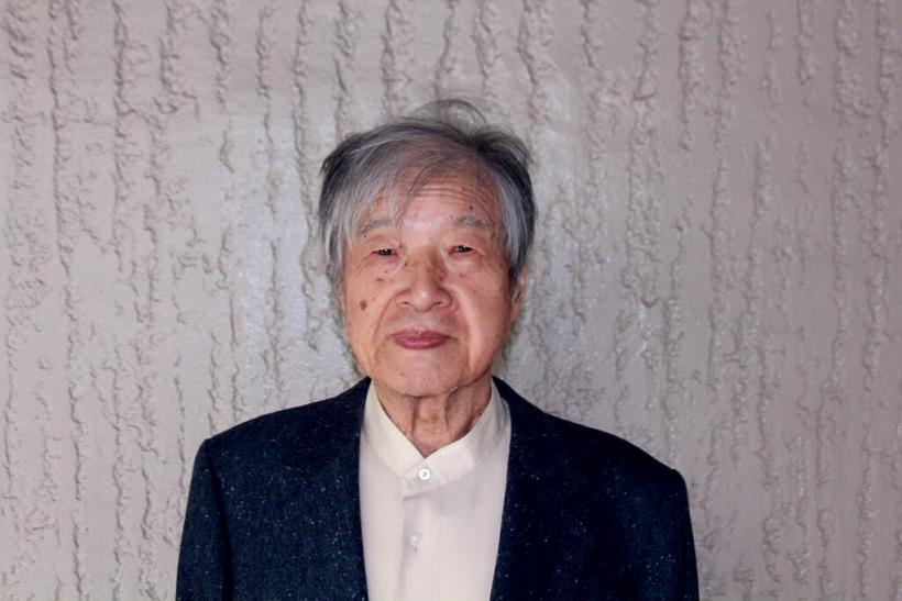 Akutagawa Prize winning author Saiichi Maruya (丸谷才一) aka Saiichi Nemura (根村才一) in 2011